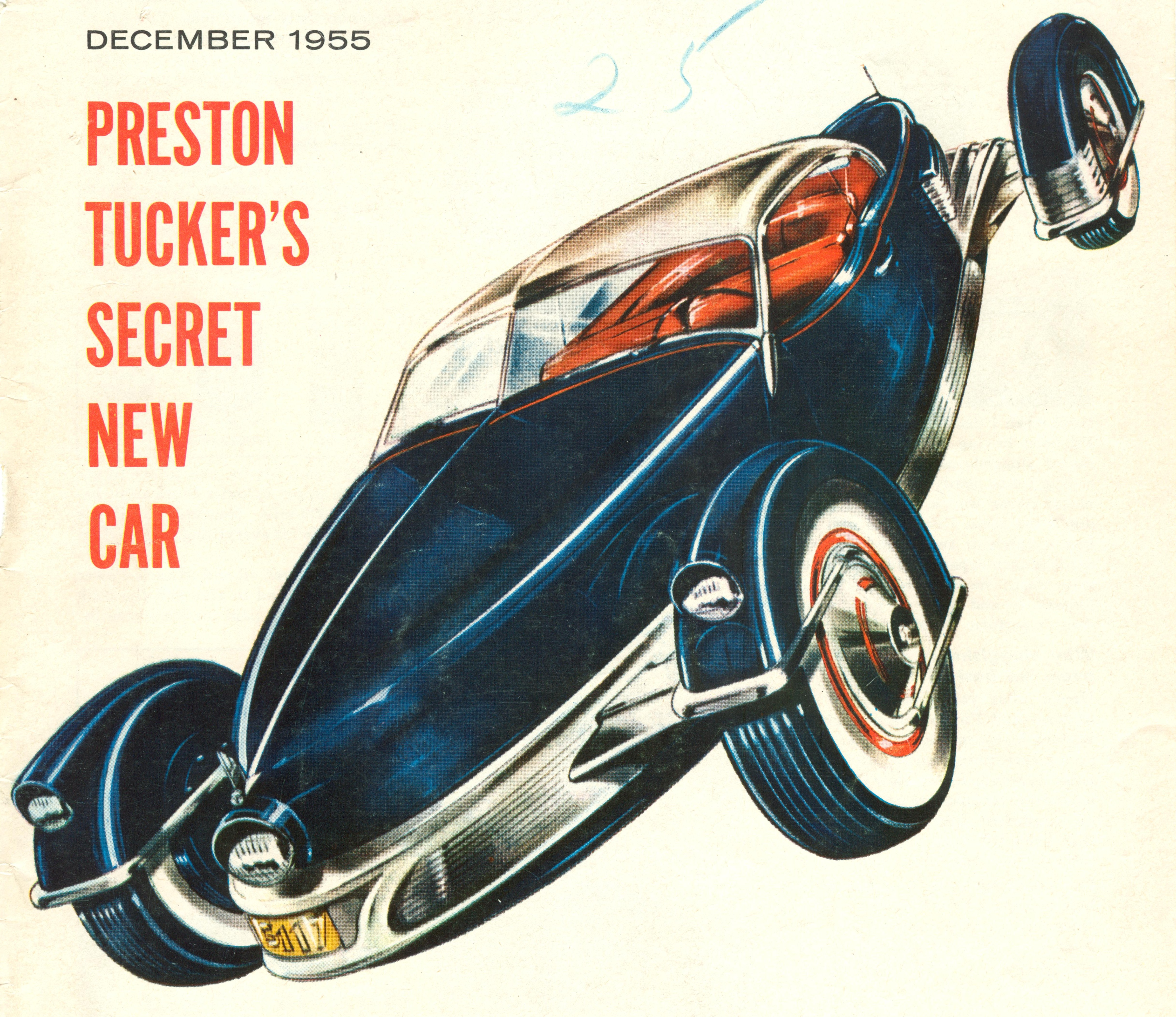 Some design elements of both the early proposals for the Torpedo and the final design for the "48" appear in this cover illustration of the Carioca from Dec. 1955 Car Life magazine. Tucker was quoted in the article: "I never gave up. I never will!". Preston Tucker died a year later (12/26/56).